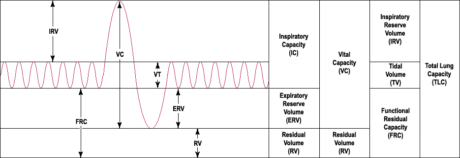 This is a prototypical output of a 'spirometer'. The vertical axis signifies the volume and the horizontal axis signifies time. The bottom left corner equals zero lung volume at the start of the spirometer recording session. The first small amplitude part of the sinusoid depicts repeated resting state involuntary breathing. The amplitude of this small sinusoid corresponds to the 'Tidal Volume'. The large positive amplitude spike represents voluntary inspiration to maximal volume or 'Total Lung Volume'. The large negative amplitude spike represents forced expiration to the lowest possible physiological lung volume called 'Residual Volume'. All of the lung volumes commonly referred to in the literature are labeled. Vihsadas 21:31, 18 April 2007 (UTC) Vihsadas (talk) 05:52, 7 March 2008 (UTC) Vihsadas 20:10, 14 April 2007 (UTC)